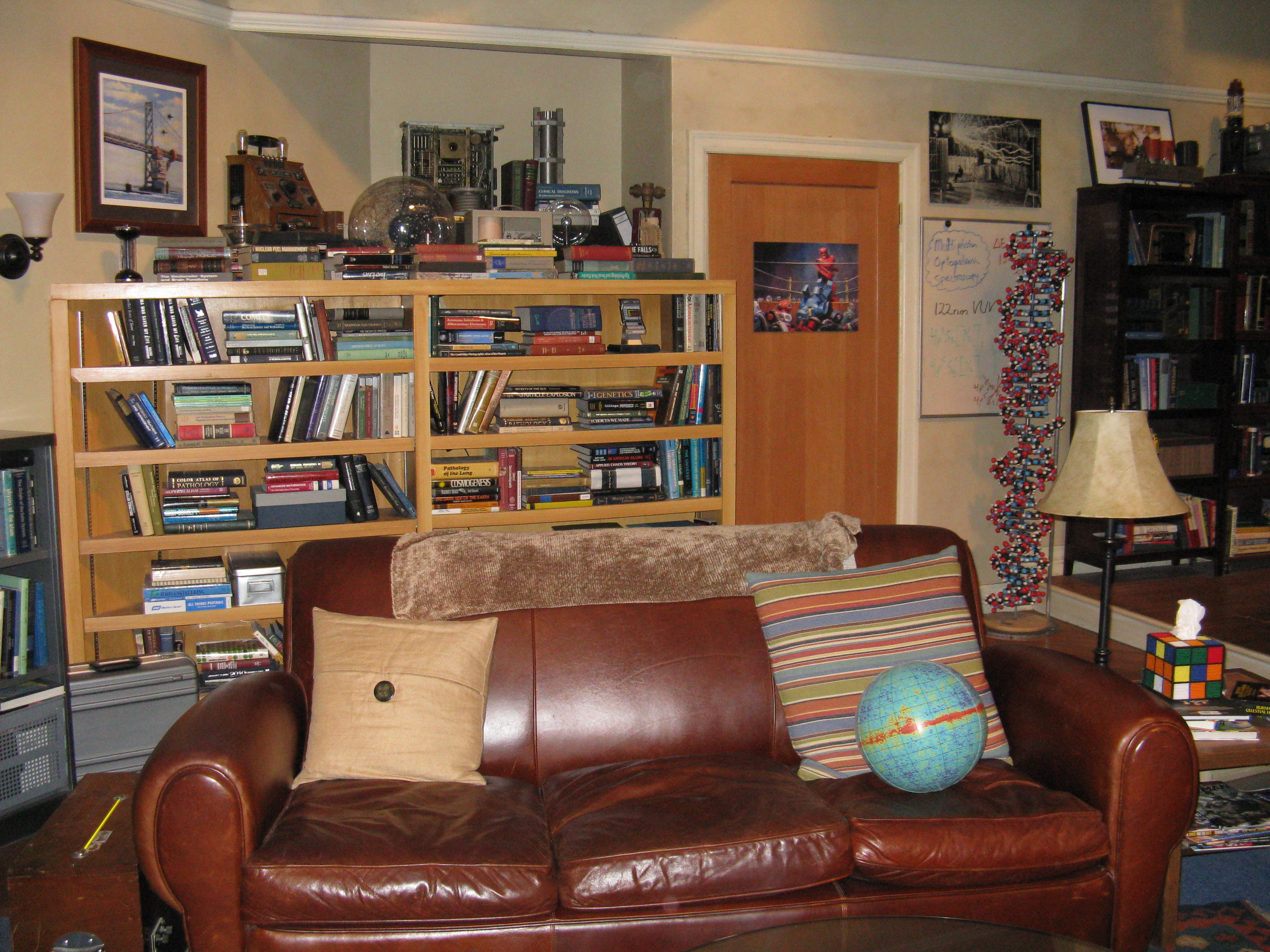 The Big Bang Theory sets at the Warner Bros. Studios, Burbank.